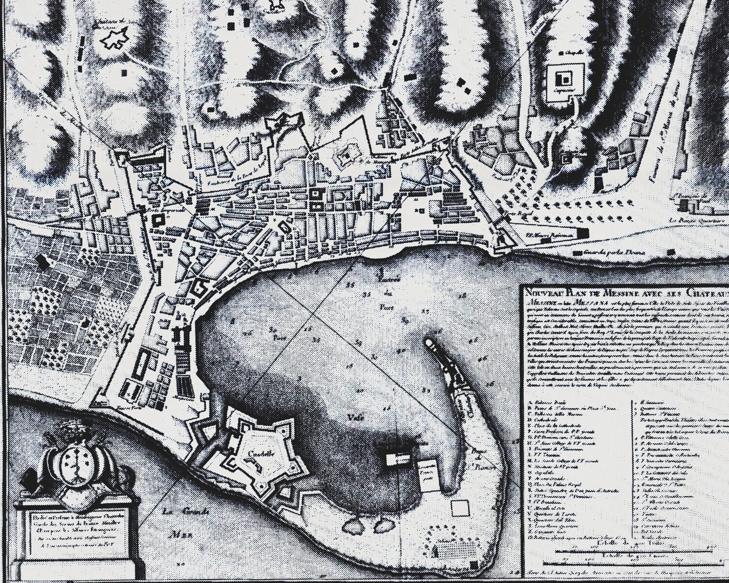 Messina in 18th century. 18th century etching taken after a drawing by Filippo Juvarra.